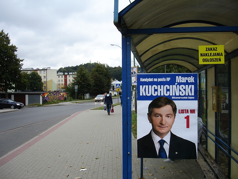 Jana Pawła II Street in Sanok